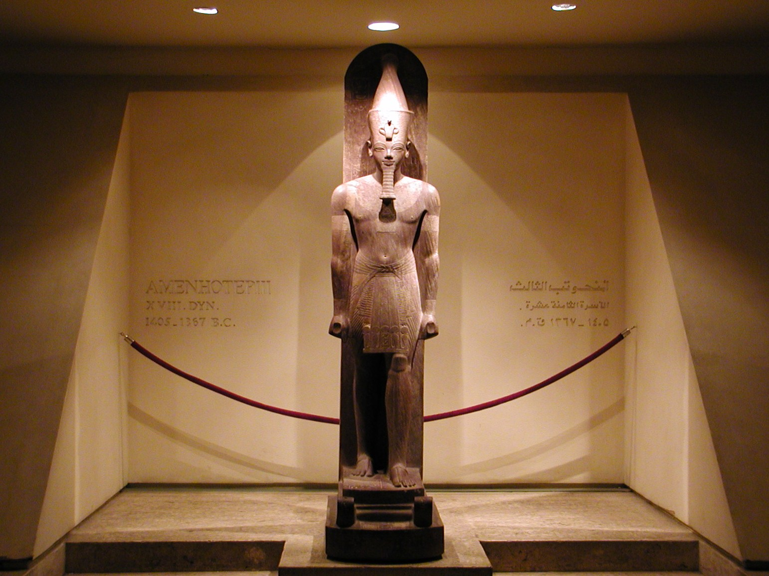 One of the statues from the Luxor statue cache. His belt is tied with the "Belt Knot", or girdle knot, (see knot (hieroglyph)). The "Knot" is also an Ancient Egyptian amulet. Statue of Amenhotep III, standing on a sled, the sled of God Tem, (Atum, the oldest named Creator God in Egypt).